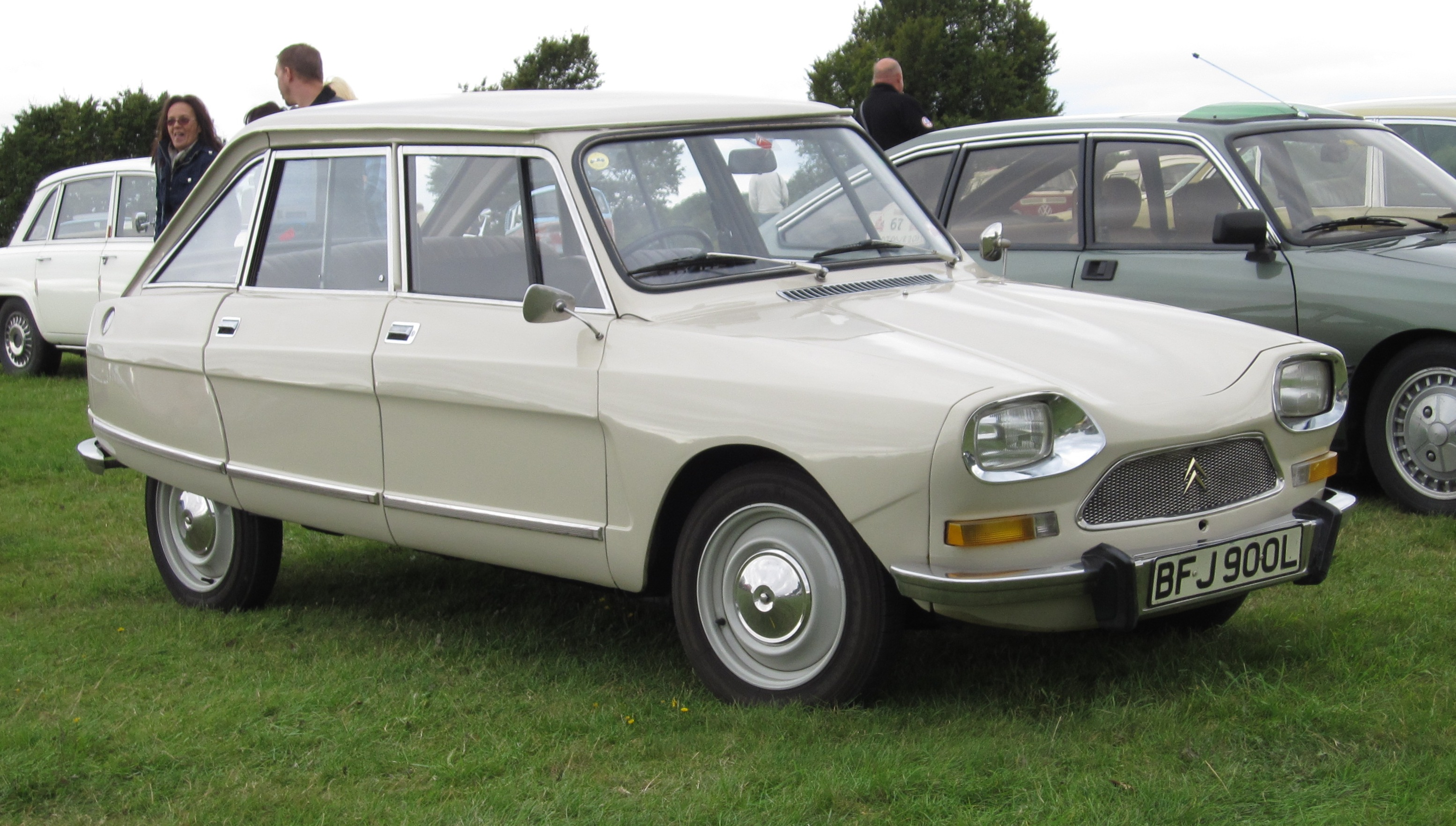 Citroen Ami 8 at Knebworth classic car show